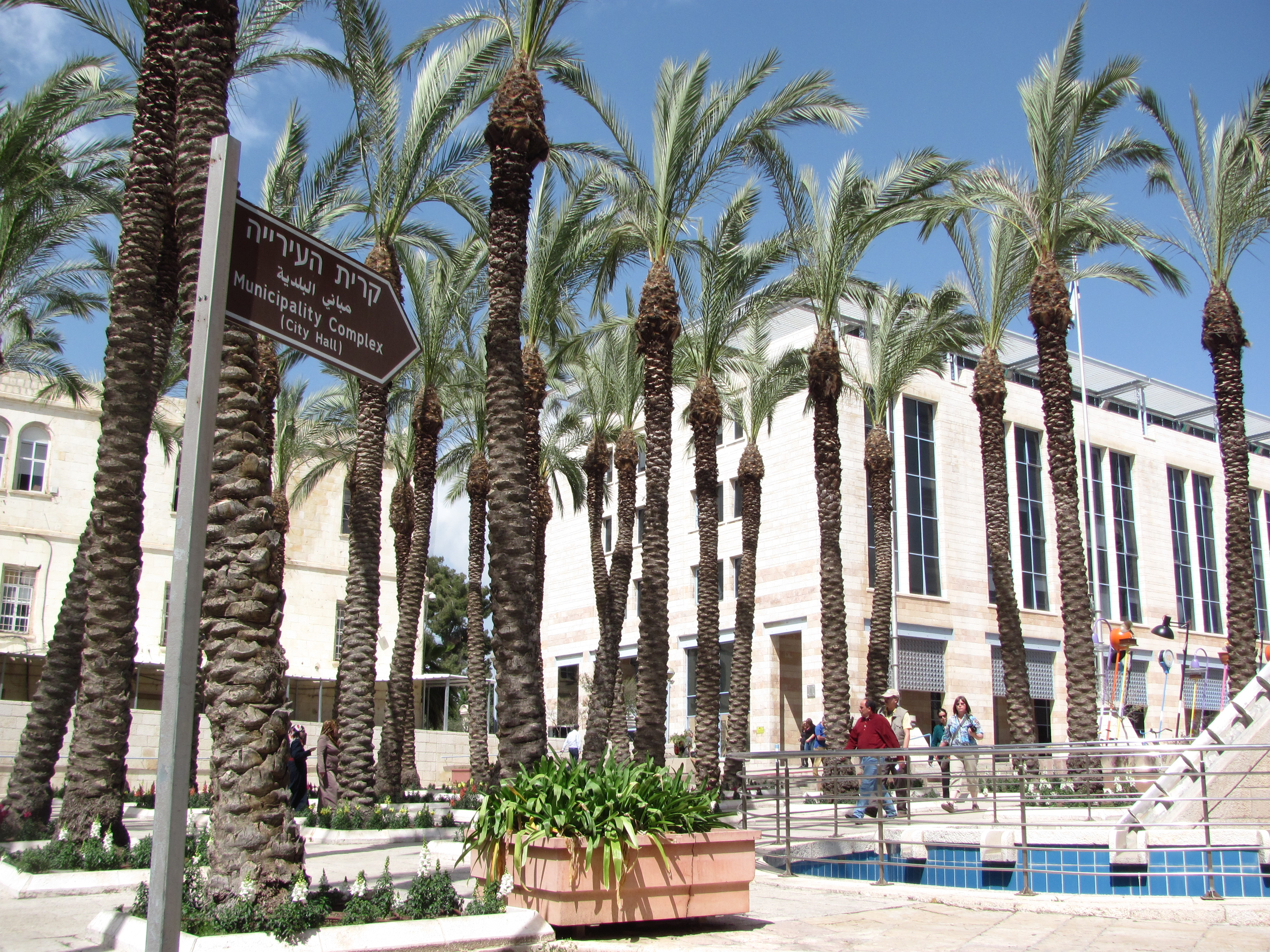 Boulevard of palm trees fronting Safra Square, Jerusalem. The Jerusalem City Hall is in background, right.